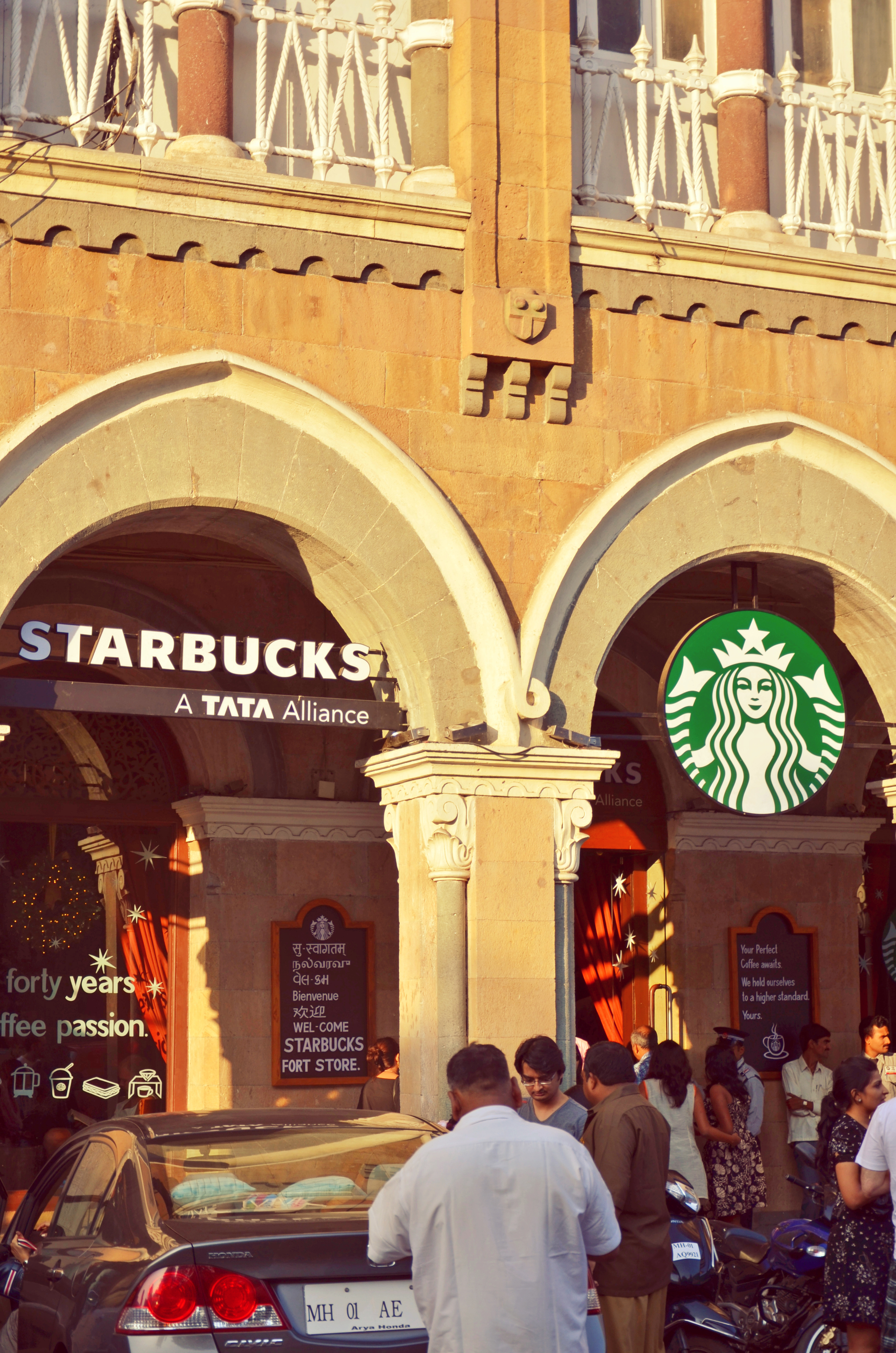 Starbucks, near Horniman Circle (Elphinstone Circle), Mumbai.